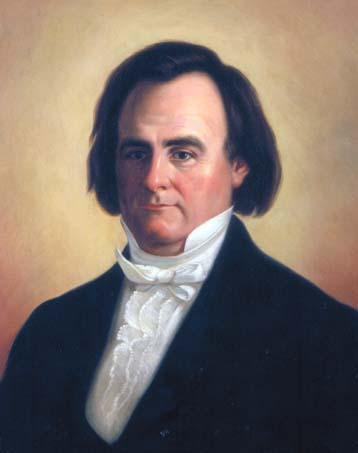 Portrait of Kentucky Governor Charles Anderson Wickliffe